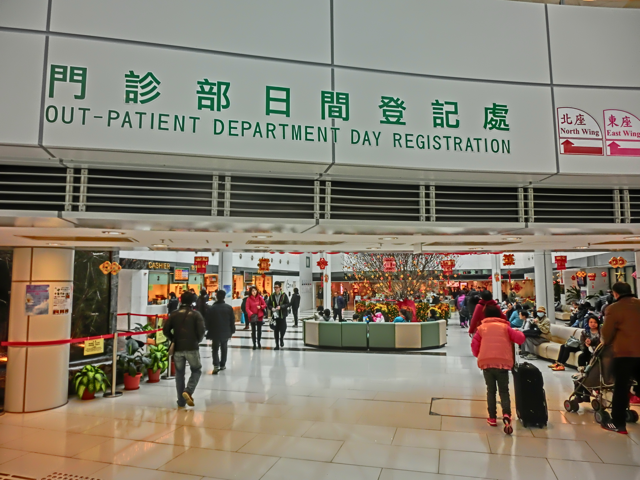 九龍法國醫院, St Teresa's Hospital, Ma Tau Wai, Prince Edward Road West, Hong Kong